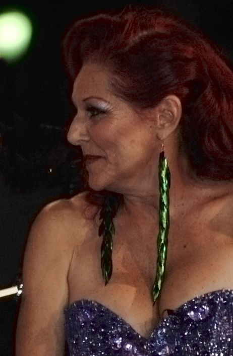 Cropped image from File:Life Ball 2009 (arrivals) Patricia Field and The Blonds.jpg